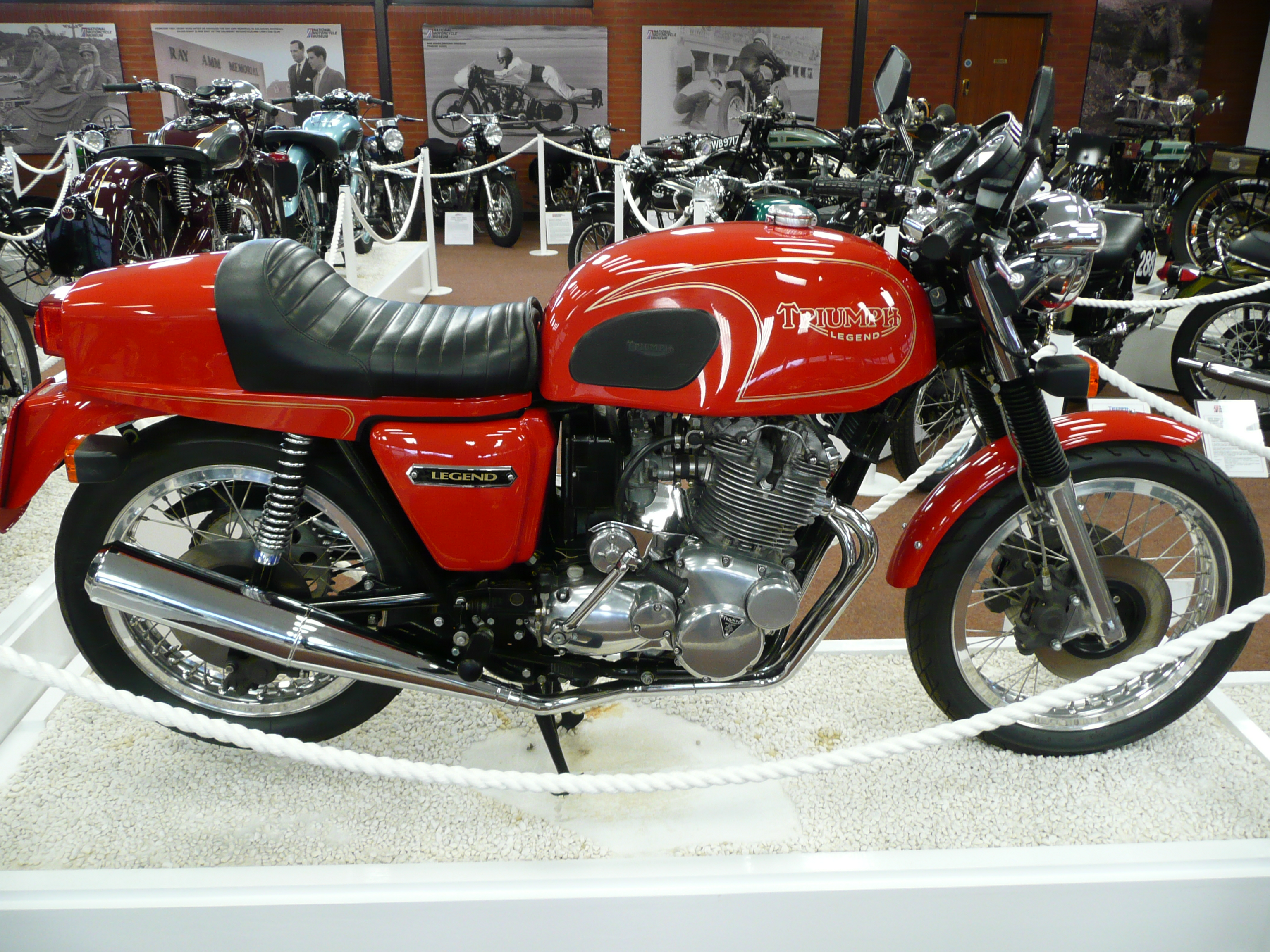 Triumph Legend 741cc 1975